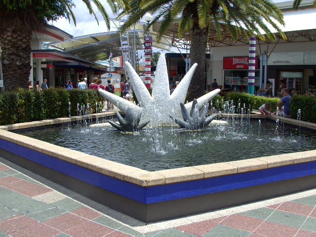 Fountain with symbol at/of Harbour Town, Gold Coast, Queensland.